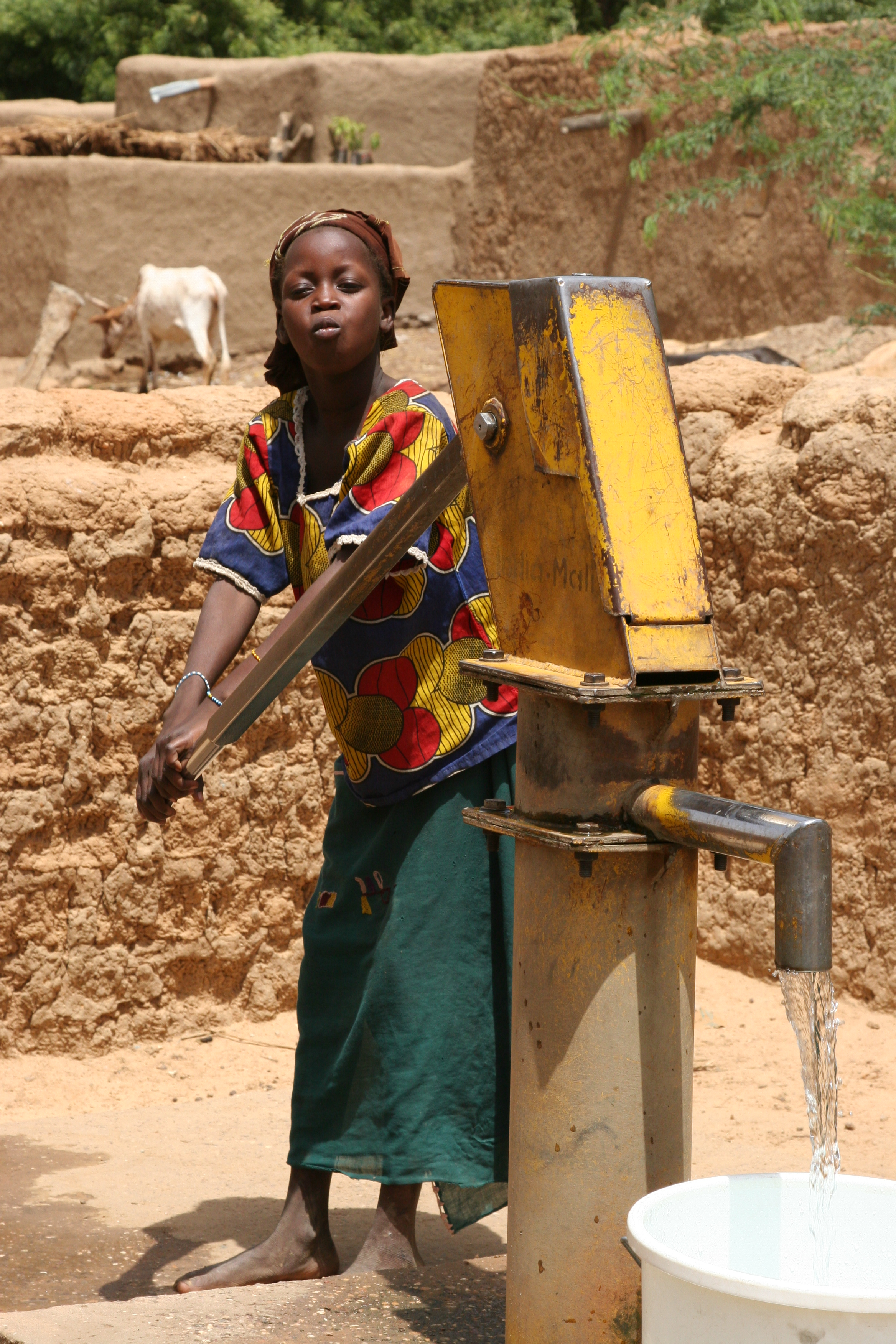 Young girl at a water pump in Mali, West Africa